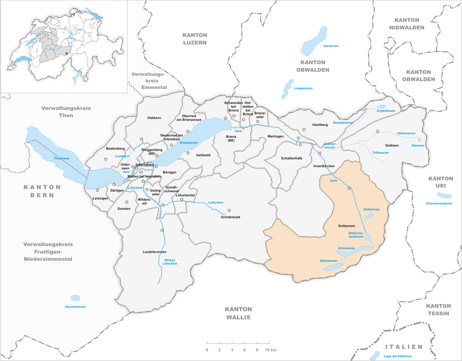 Municipality Guttannen